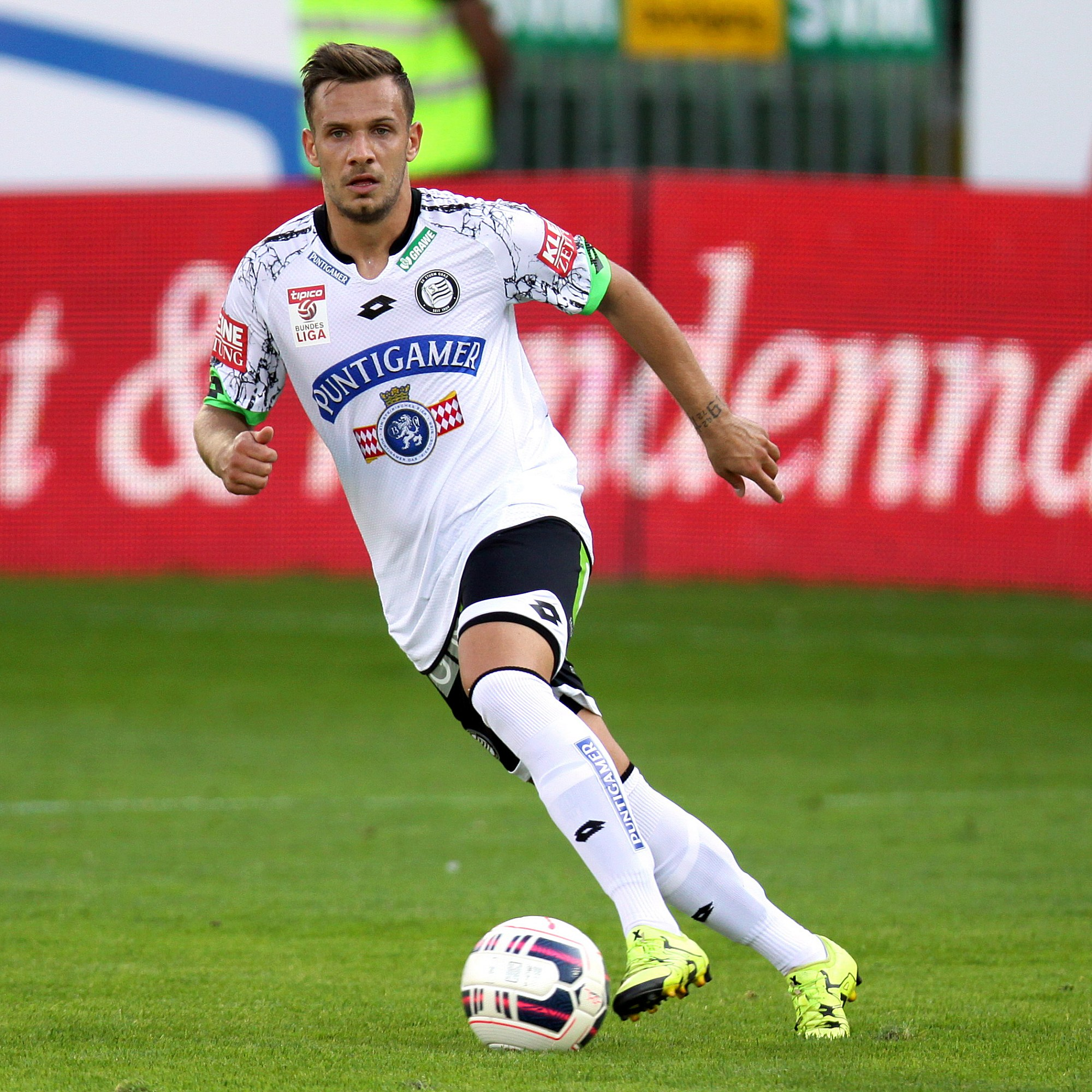 Match of the Austrian Football Bundesliga – SV Mattersburg (green shirts) vs. SK Sturm Graz (white shirts) on 2015-09-13 in Pappelstadion, Mattersburg – The photo shows Daniel Offenbacher